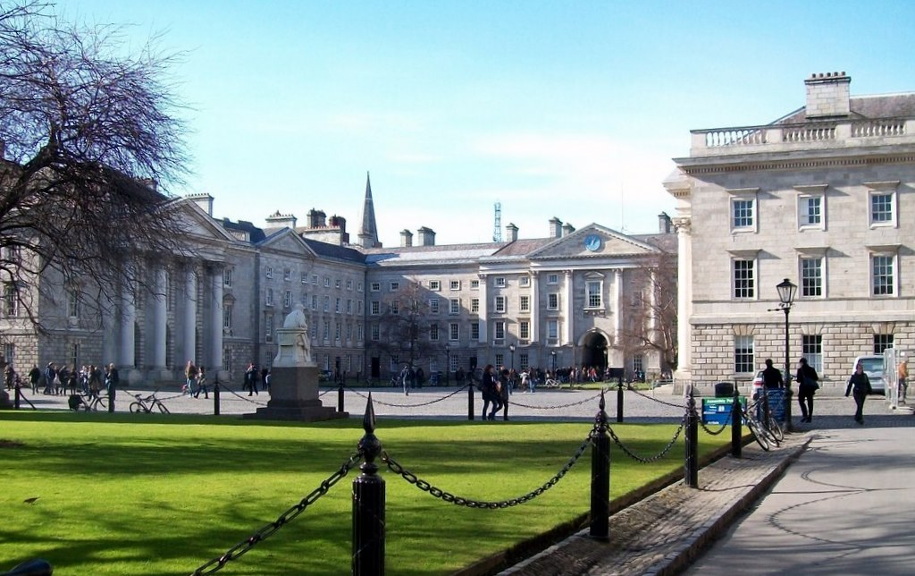 Parliament Square from the Graduates Memorial Building [GMB] Three famous landmarks can be seen in the photo, on the left, The Examination Hall, centre, Regent's House and, on the right, the College Chapel. The spire in the background belongs to the former St Andrew CofI Church in Suffolk Street now converted into the Dublin City Tourist centre.